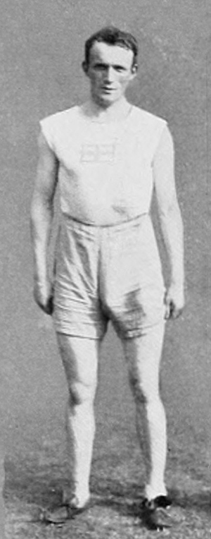 Hugo Wieslander at the 1912 Summer Olympics